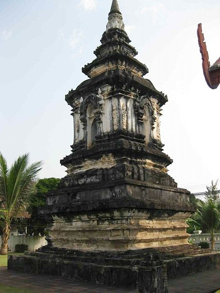 chedi wat hua khuang